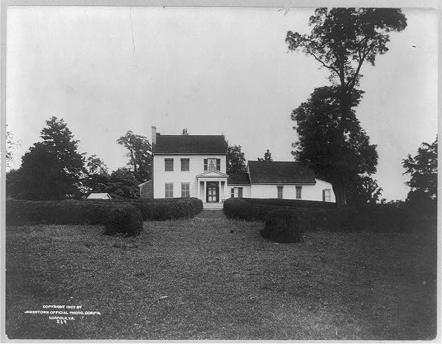 Black-and-white photograph of Red Hill Plantation, home of Patrick Henry, Staunton County, Virginia, copyright 1907. Courtesy of the Library of Congress Digital Collection, Washington, D. C.